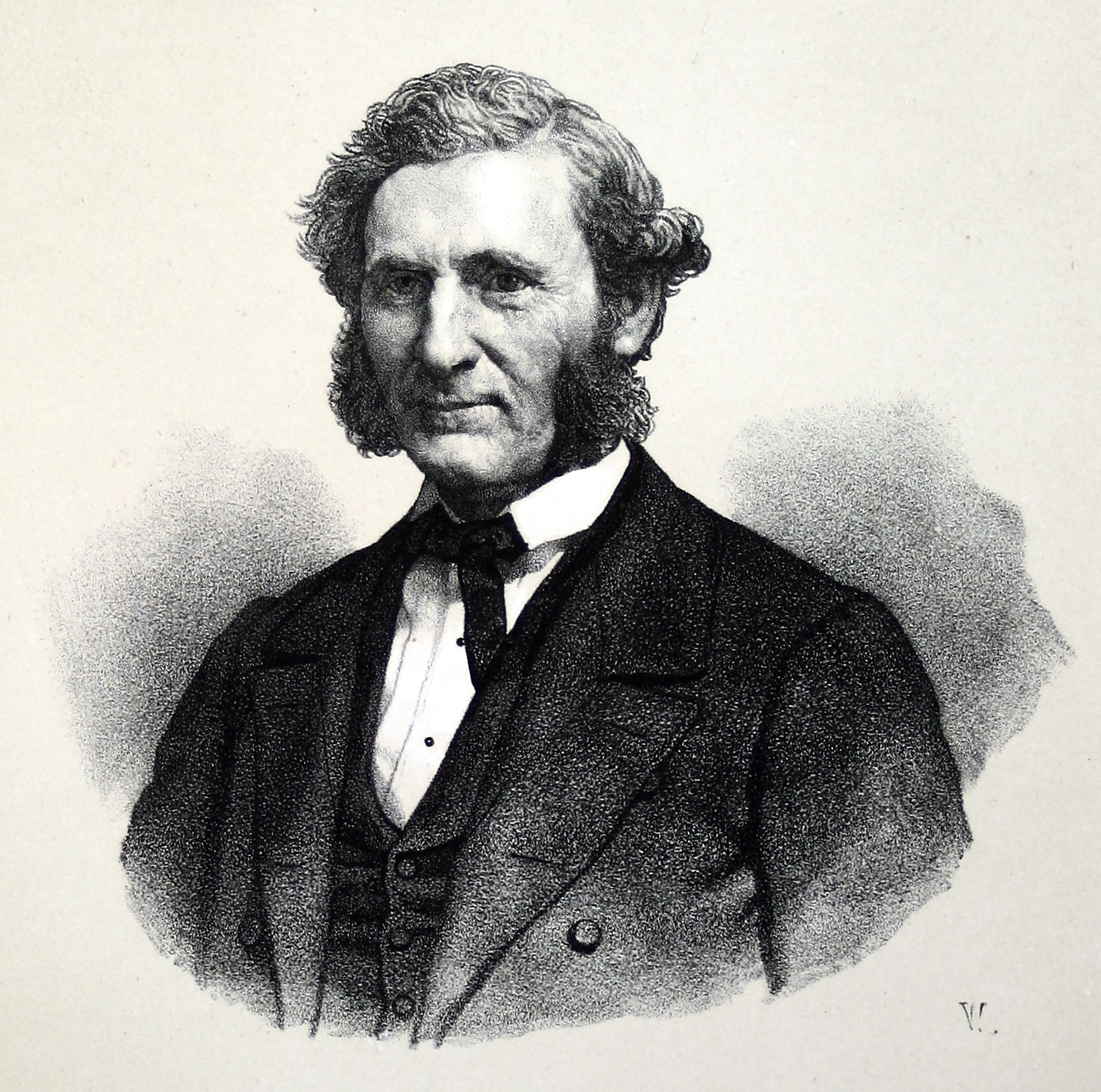 Portrait of Fredrik Brusewitz from the book "Svenska industriens män" (1875)